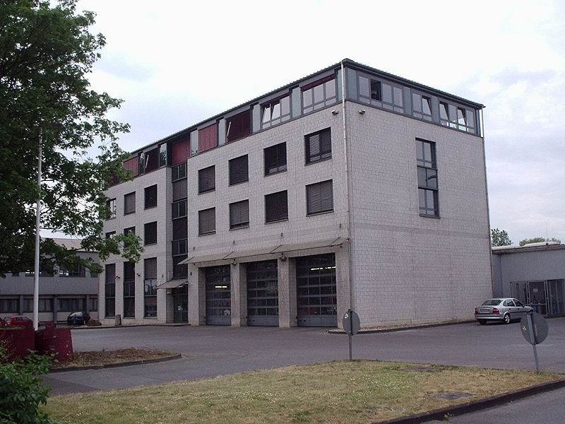 A building of the fire station 1 of the professional fire brigades Duisburg, where the set of fire-fighting appliances is stationed